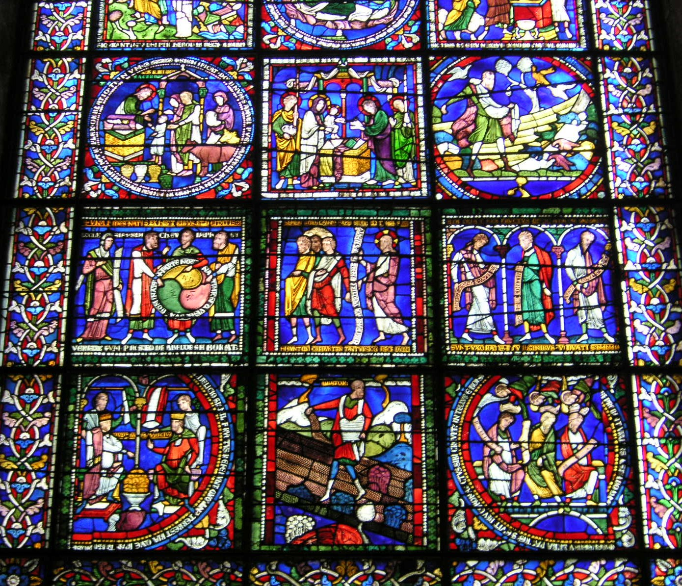 Canterbury Cathedral, Poor mans Bible window,, the lower half